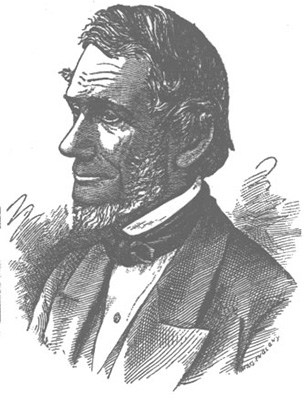 Portrait of historian Jeptha Root Simms.